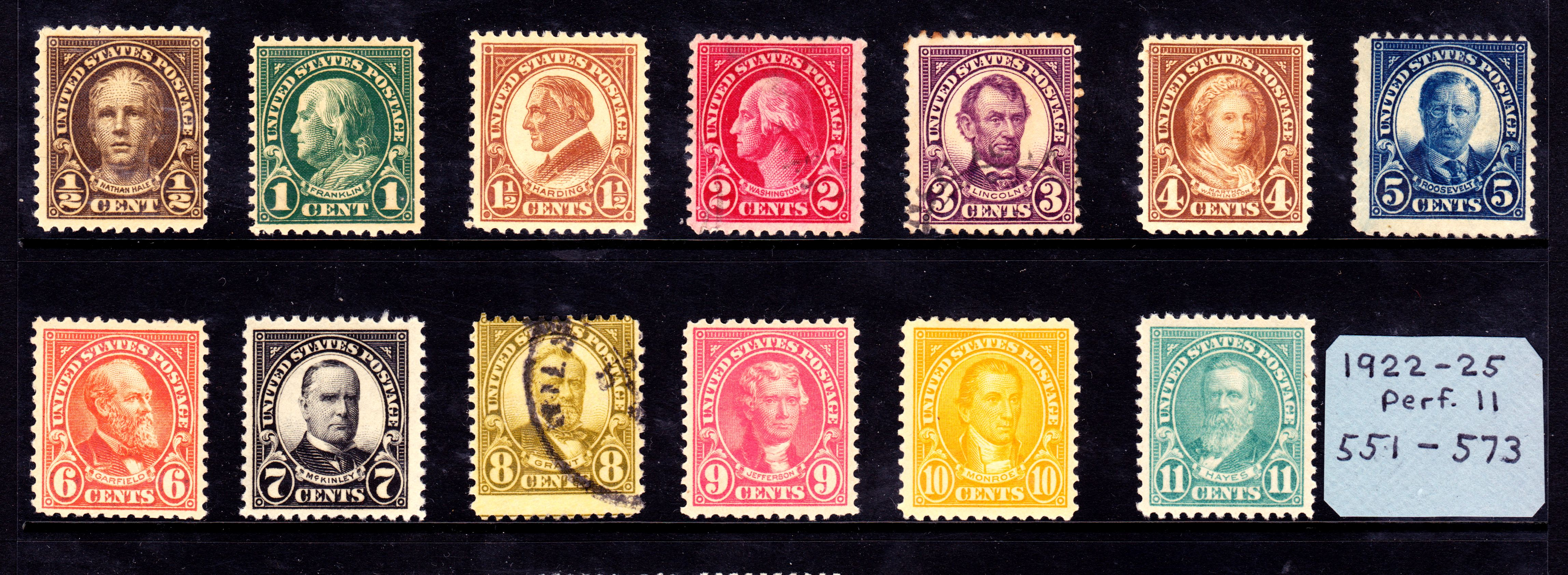 Regular_Issue_1920s_1-11c.jpg